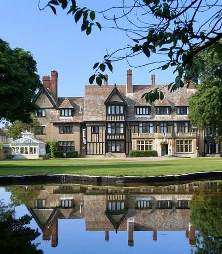 Sizewell Hall viewed over pond